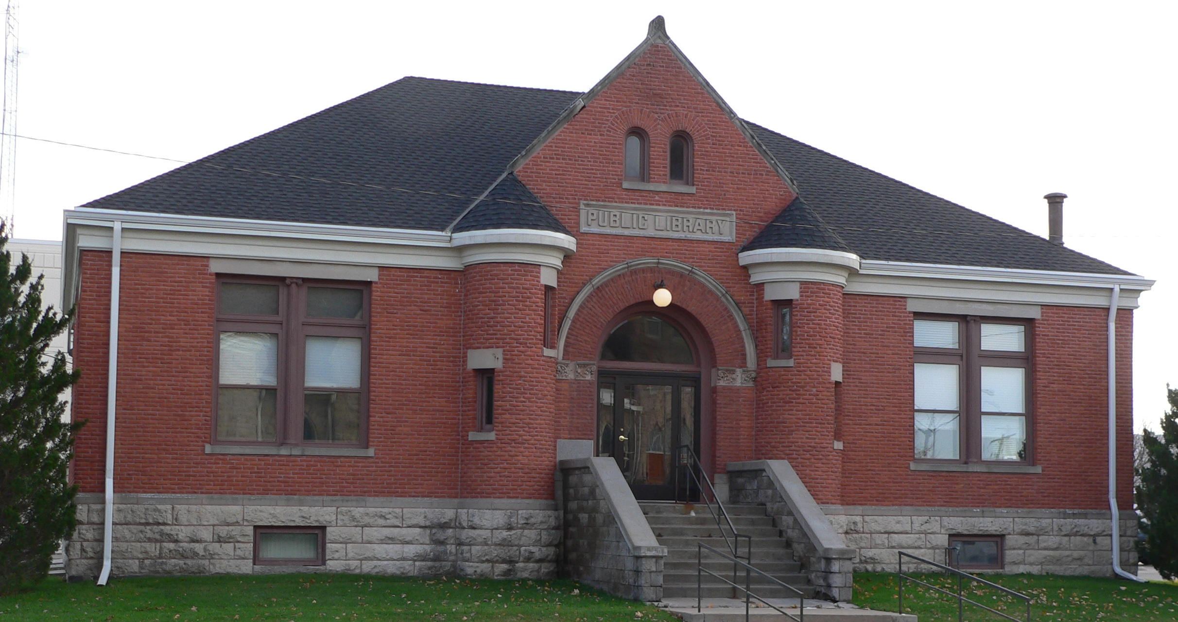 The York Public Library at 306 E. Seventh St. in York, Nebraska. The building was designed in Romanesque Revival style by architect Morrison H. Vail, and was built in 1901. It is no longer in use as a library; it currently houses offices. The building is listed in the National Register of Historic Places.